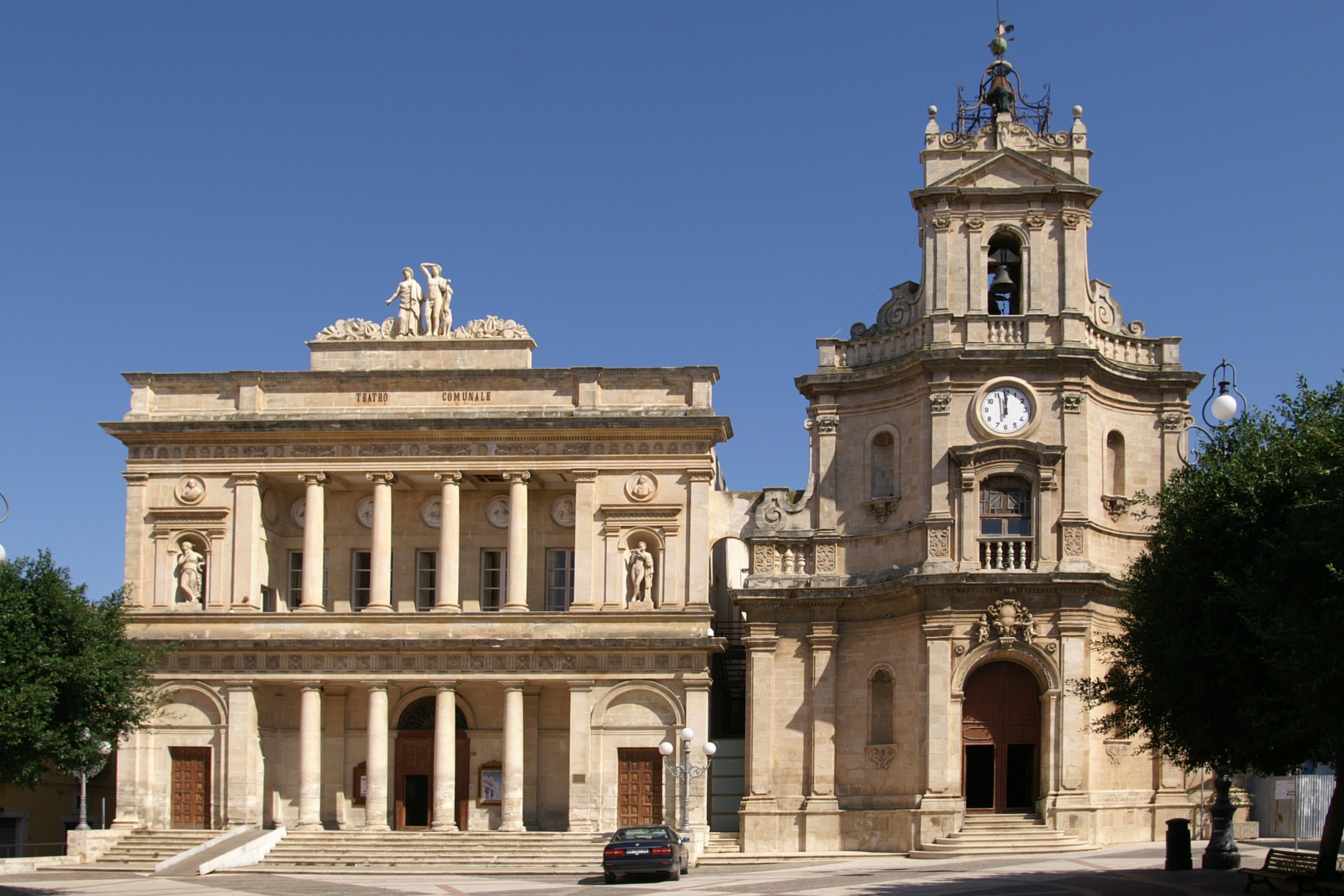 Vittoria: Piazza dell popolo, teatro e chiesa S.Maria delle Grazie